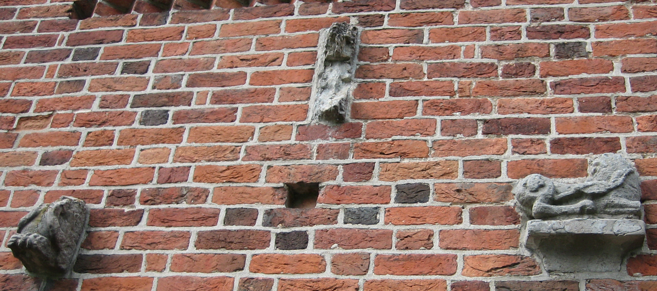 Sankta Maria kyrka in Åhus, Sweden. Exterior. Pieces from the 10th century original church. Photo by the uploader.